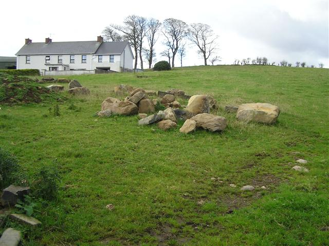 Knockoneill Cairn There seems to be more stones lying about than at the actual monument. Dating from about 3000 BC, this very dramatic two chambered megalithic tomb with a semicircular forecourt, an antechamber and a subsidiary chamber is enclosed within a rectangular cairn. This site is particularly unique as in the early Bronze Age a round cairn was superimposed on the earlier long cairn and remains of its curving kerb may still be traced. The site was originally excavated in 1948 by IJ Herring who found a pygmy cup and urn fragments, finds relating to the Bronze phase. Thirty years later it was re-excavated by L Flanagan who found Neolithic pottery and a flint blade in the burial chamber, a Bronze Age cremation and pottery in pits in the forecourt and a stone cyst containing green oval stone bead was found inserted into the later round cairn. A very fragmentary, undecorated Beaker pot of the early Bronze Age was also found in the round cairn and from beneath the cairn a stone axe was recovered.